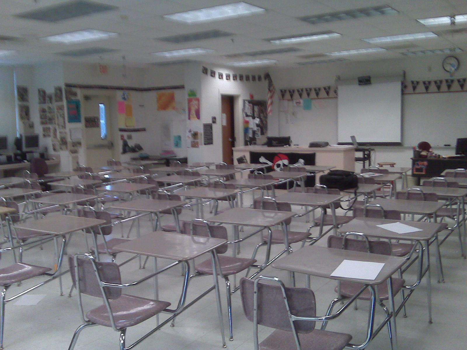 Classroom at Port Charlotte High School where the English language is taught, specifically British Literature in this case as it is an English 4 classroom. This room is also used by the Yearbook Team for the production of the school yearbook, since the teacher who uses this classroom is the Yearbook Team sponser.